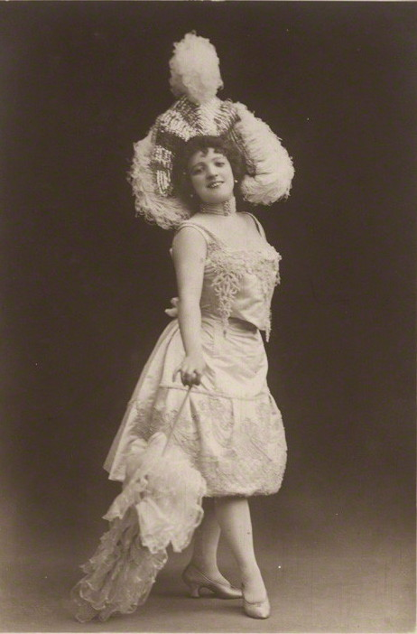 British actress Marie Lloyd, on a postcard